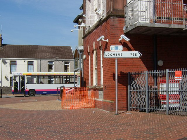 French signpost outside the Arts Centre pointing to Pontardawe's twin town of Locminé (Brittany), Pontardawe, Wales